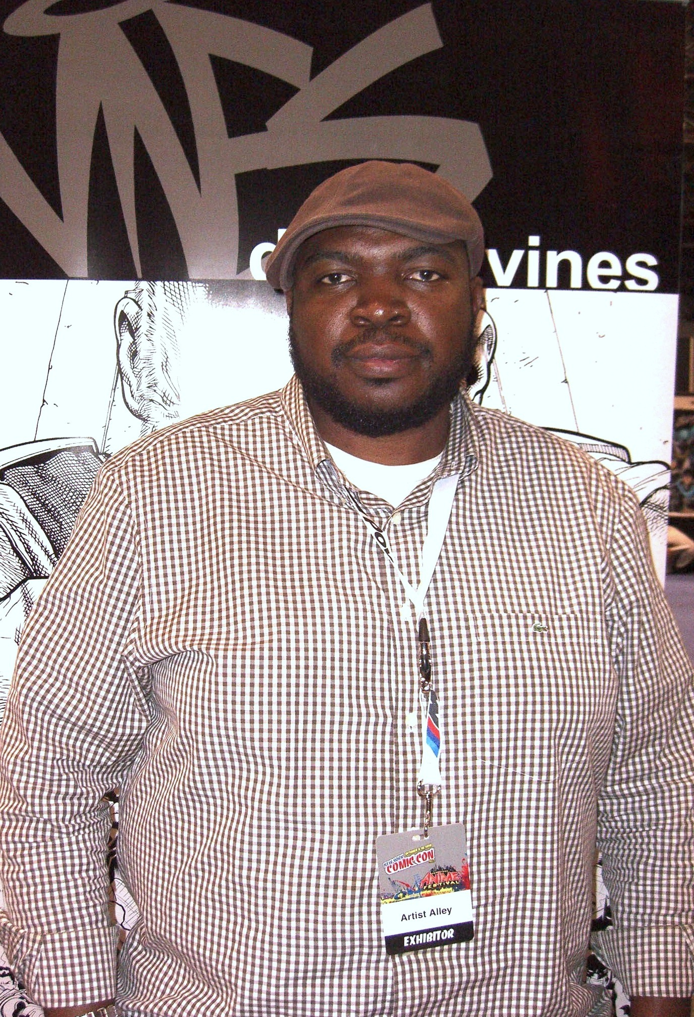 Comic book creator Dexter Vines, at the New York Comic Convention in Manhattan, October 9, 2010. Photo by Luigi Novi. This photo may be used, modified and published for any purpose, only if a easily visible credit to the photographer is placed near the photo in each instance in which it is used. (See licensing information below.) Publication of this photo without this proper attribution constitute copyright infringement. For more information on my photos, you can contact me here.